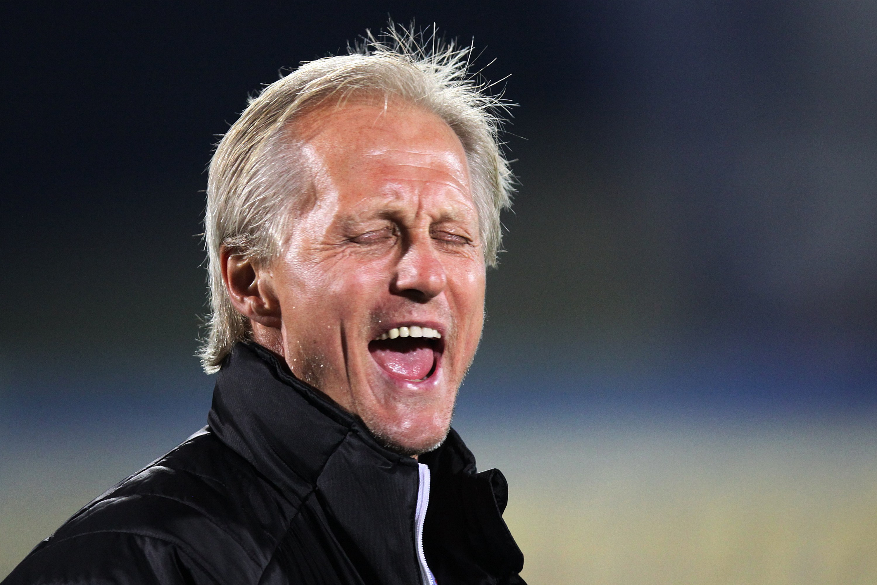 Match of the Erste Liga – SC Wiener Neustadt (blue/white shirts) vs. SV Austria Salzburg (purple shirts and black/white shirts) 2–0 (1–0) on 2015-10-02 in the Stadion in Wiener Neustadt – The photo shows the headcoach of SV Austria Salzburg Jørn Andersen.